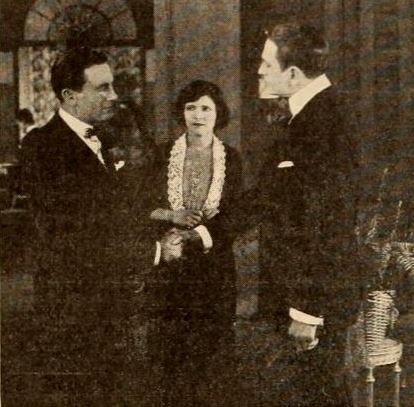 Still from the American comedy film Piccadilly Jim (1919) with Owen Moore and Zena Keefe, on page 89 of the December 20, 1919 Exhibitors Herald.